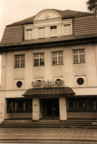 Clubkino Siegmar in Chemnitz, Germany, 1998